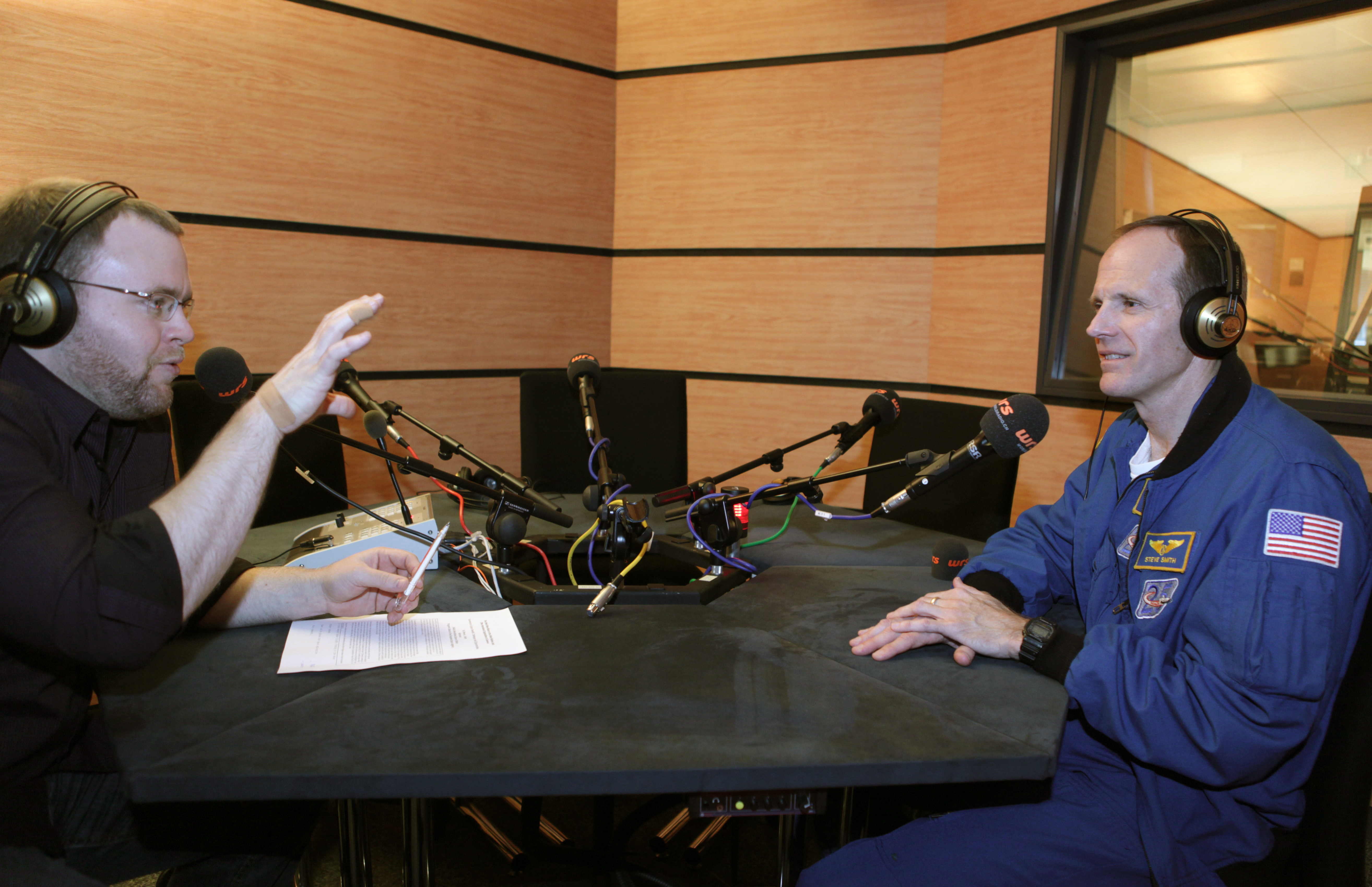 NASA Astronaut Steven Smith visited the U.S. Mission Geneva to share his experience in space and the lessons he's learned in his work on the international space station. He visited schools in the area and encouraged children to follow their dreams whatever obstacles they might face. Mr. Smith also spoke to an audience of scientists and diplomats at the U.S. Mission to discuss the importance of collaboration by the international community in future endeavors into space. U.S. Mission photo: Eric Bridiers